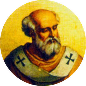 Portait of Pope Stephen IV in the Basilica of Saint Paul Outside the Walls, Rome